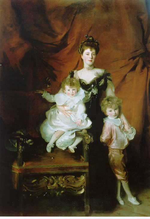 Mrs. Cazalet and Children Edward and Victor John Singer Sargent -- American painter 1900-1901 Private collection Oil on canvas 254 x 165.1 cm (100 x 65 in) Signed, upper left: John S. Sargent Jpg: Friend of the JSS Gallery